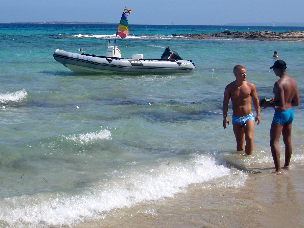 The boat - barely more than a rubber dinghy - which runs from Figueretas to Es Cavallets. Far, far better than the bus.